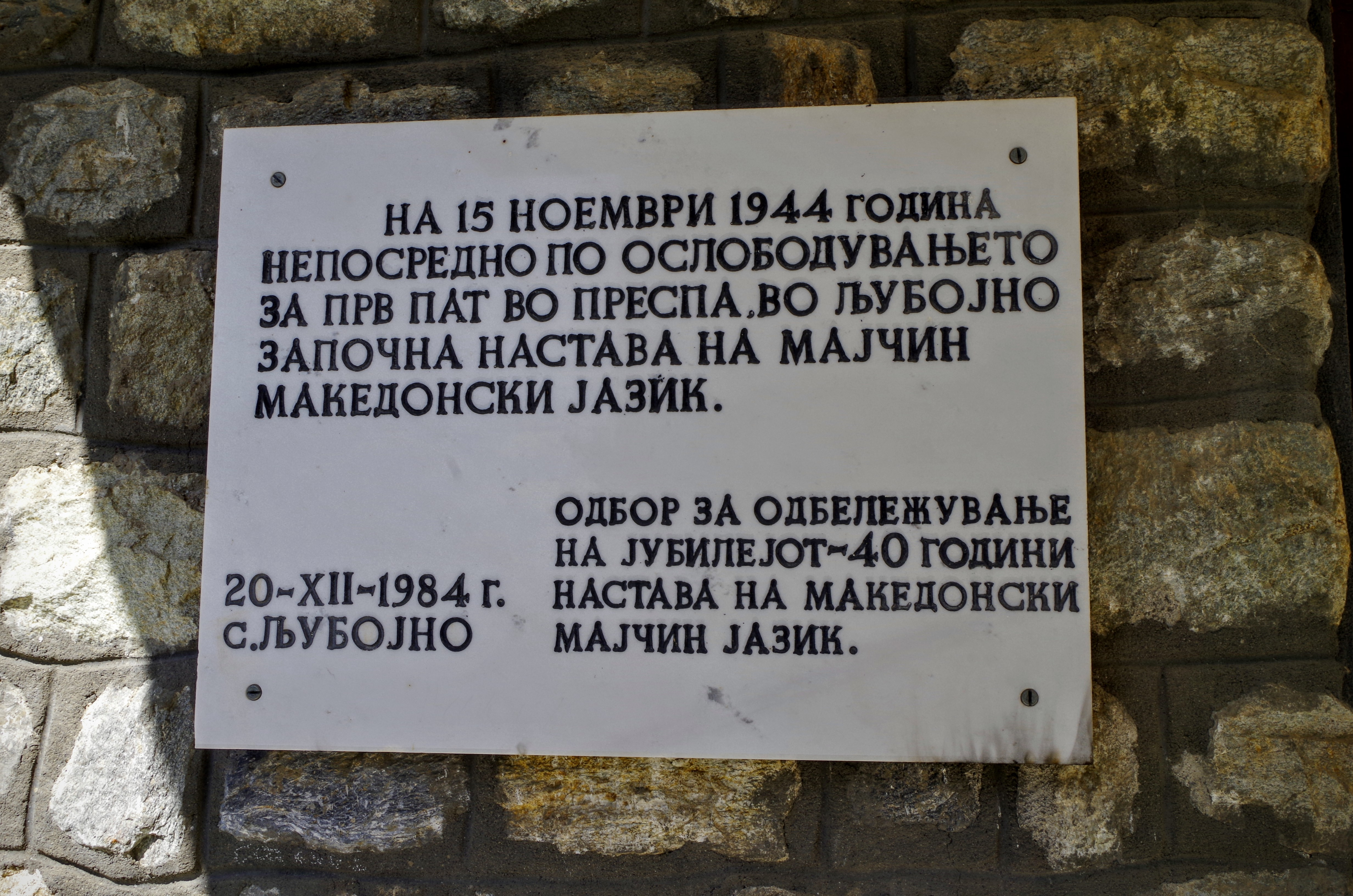 View of the rpimary school in the village Ljubojno